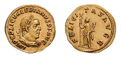 Source: English Wikipedia, original upload 8 June 2005 by Panairjdde Description: Valerian. 253-260 AD. AV Aureus (2.82 gm). Struck 255-256 AD. Rome mint. :IMP C P LIC VALERIANVS P F AVG, laureate, draped and cuirassed bust right :FELICI-TAS AVGG, Felicitas standing left, holding long caduceus and cornucopia. RIC V pt. 1, 34; Göbl 20a; Cohen 52.